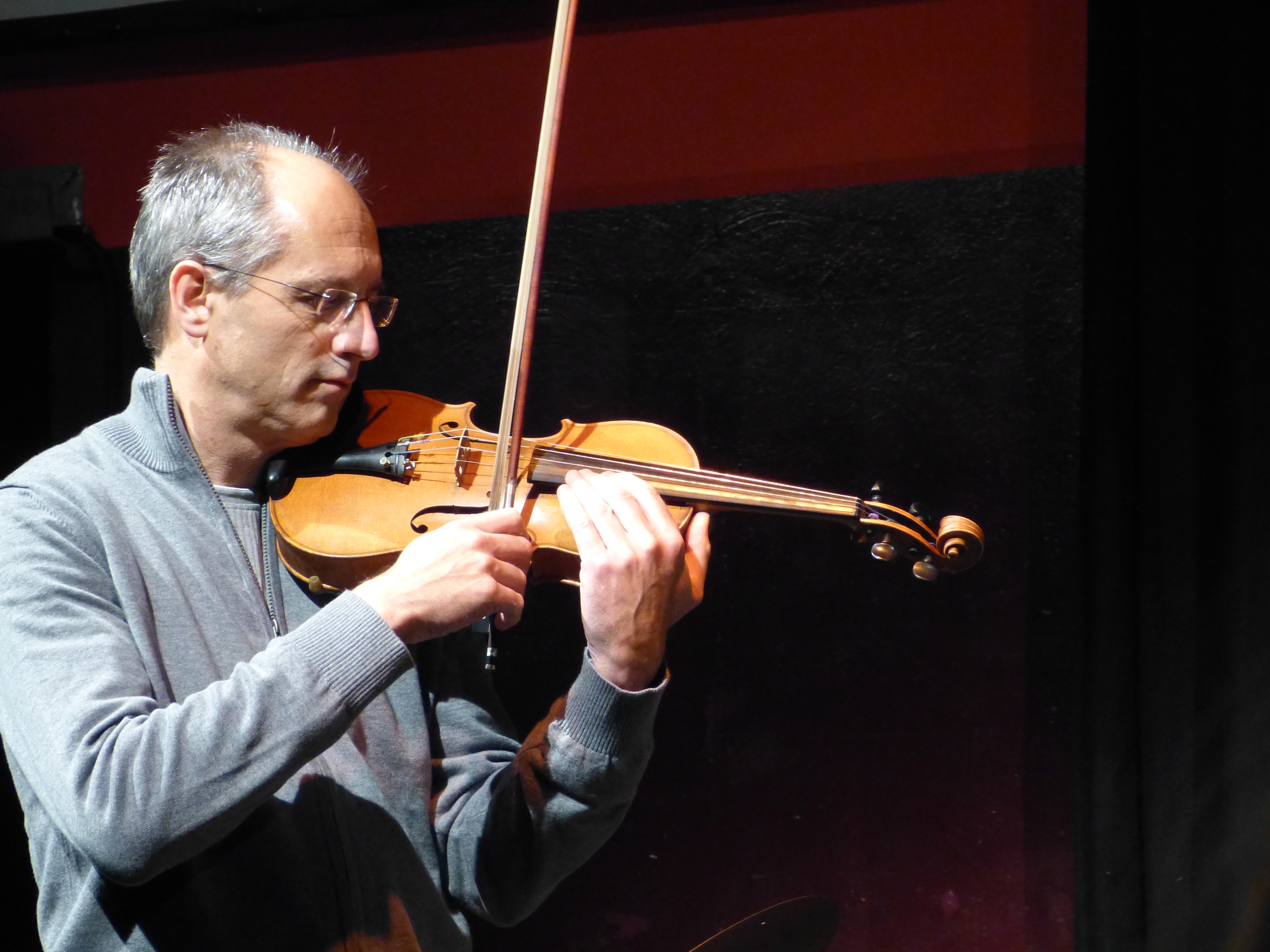 Christoph Irmer within the Peter Kowald Memorial at Stadtgarten Köln, Germany, September 21st, 2012